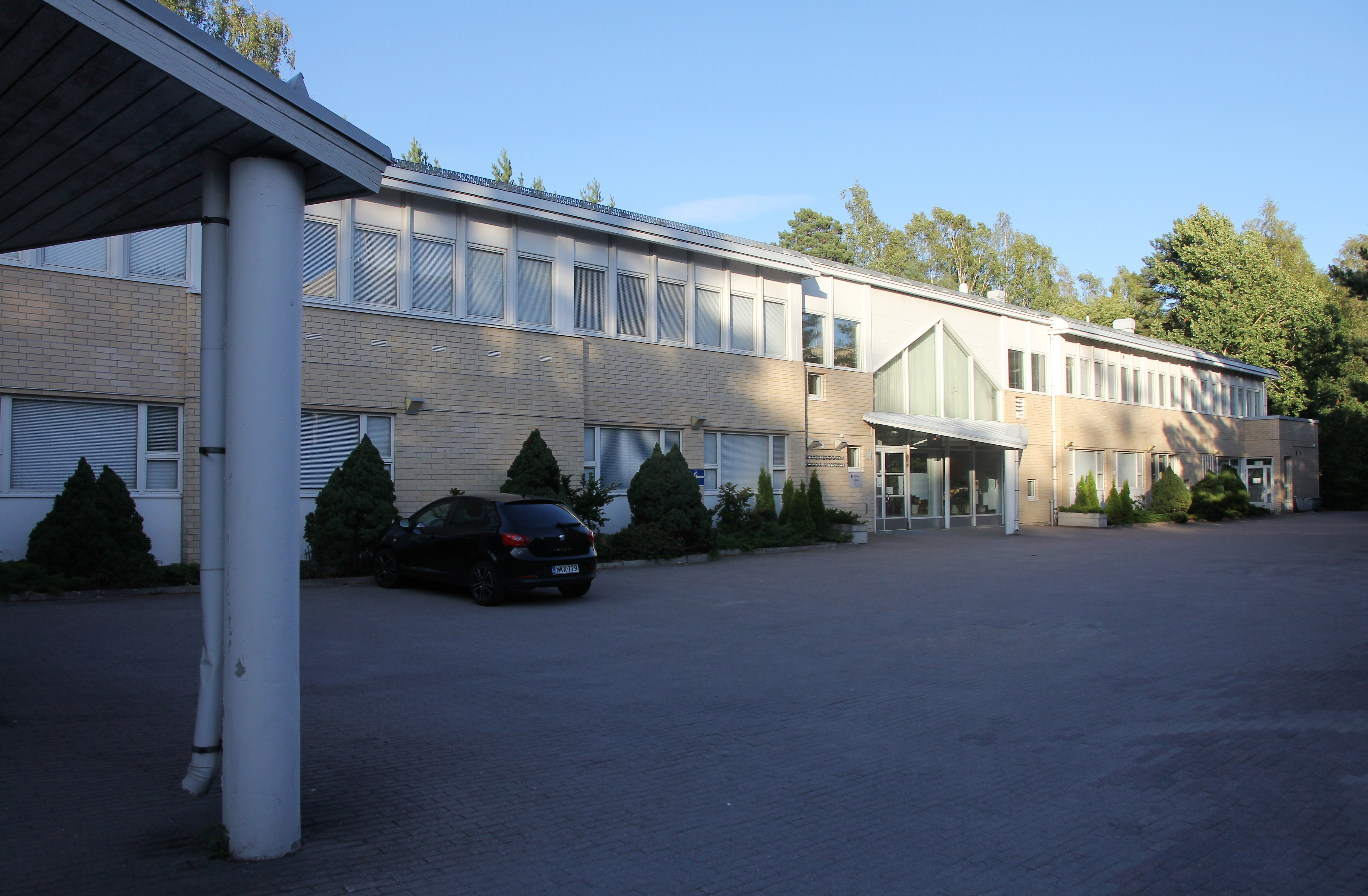 Jakomäki Health Station. Address: Vuorensyrjä 8, 00770 Helsinki.